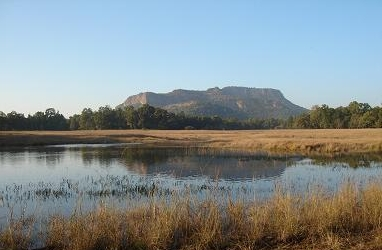 Bandhavgarh Fort in Bandhavgarh National Park, Madhya Pradesh, India (cropped version).